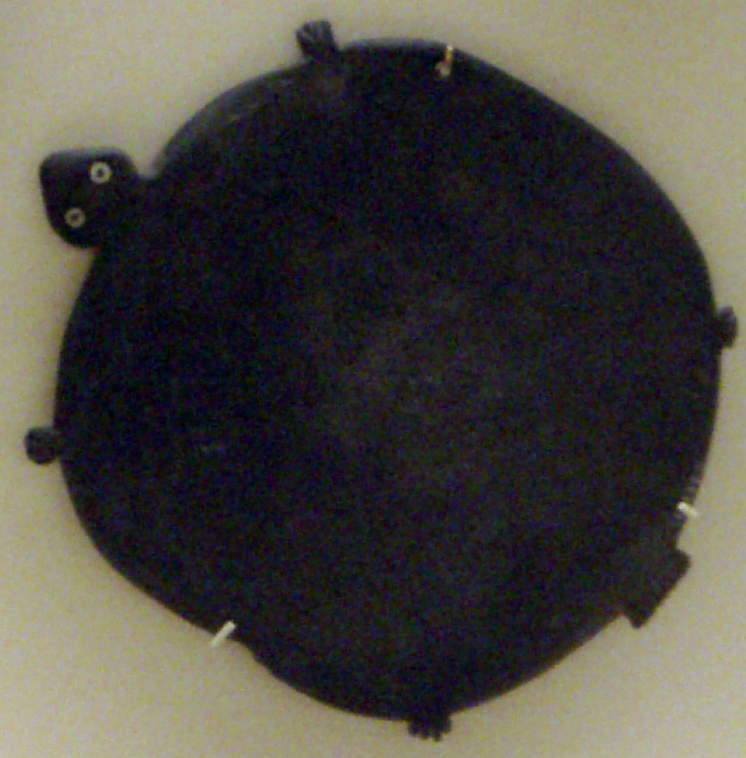 A protodynastic palette in the shape of a turtle.